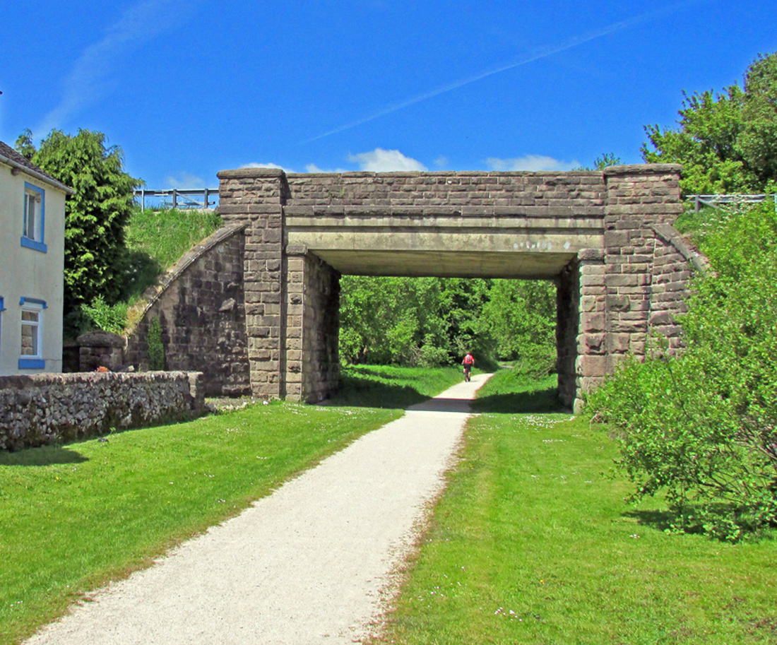 Hurdlow railway station site looking north in 2015 with the High Peak cycleway utilising the old railtrack bed.